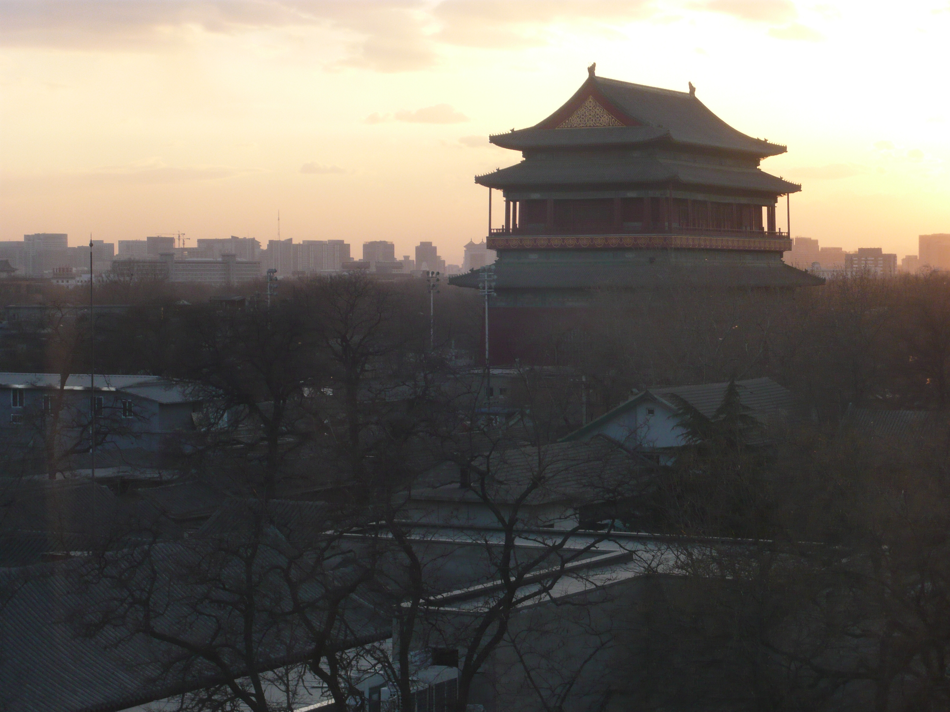 The Drum Tower of Beijing